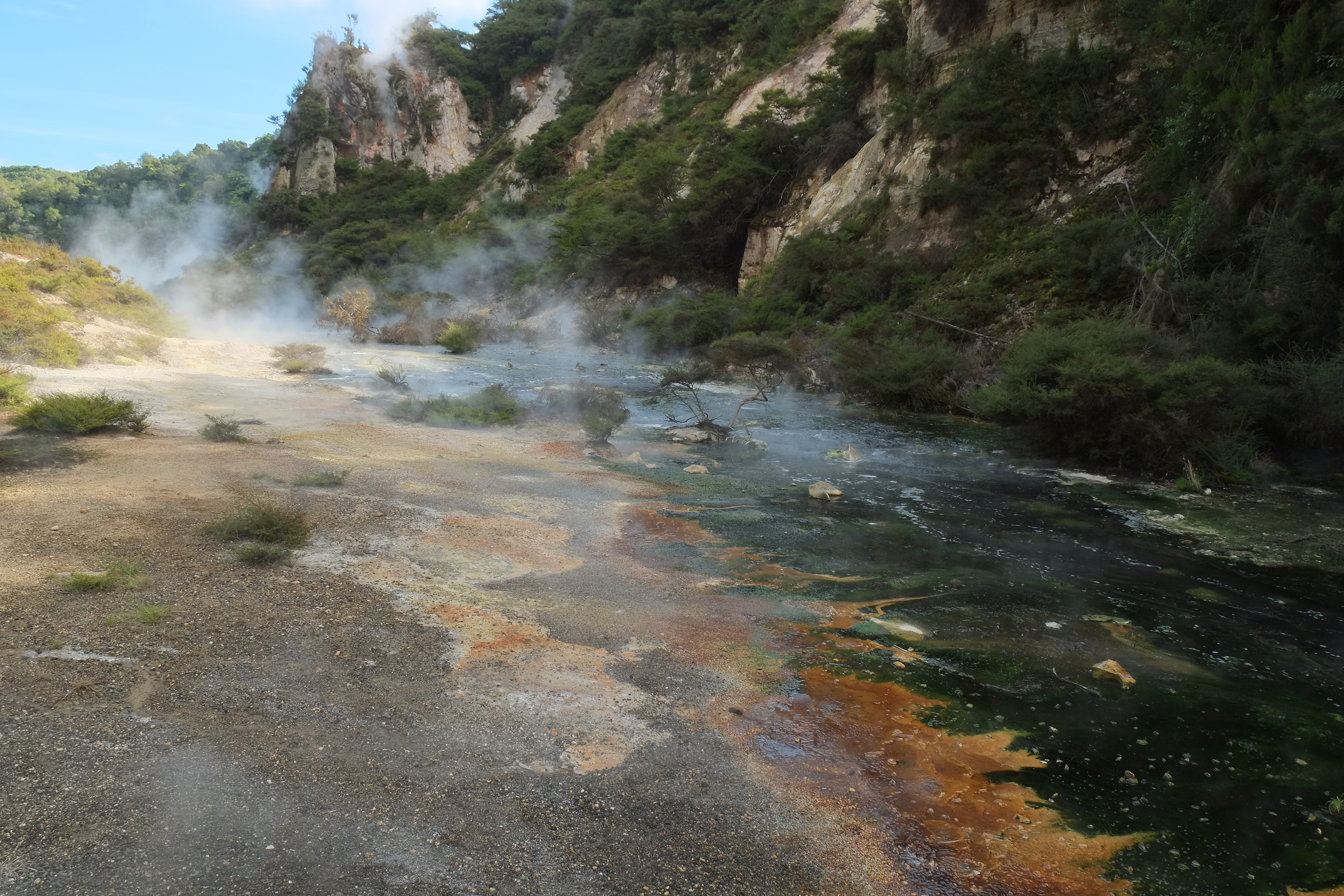 Frying Pan Lake overflow stream (Hot Water Creek) in Waimangu Volcanic Valley